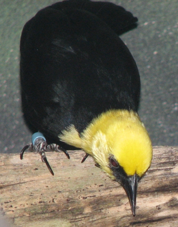 Agelaius icterocephalus (Yellow Hooded Blackbird)